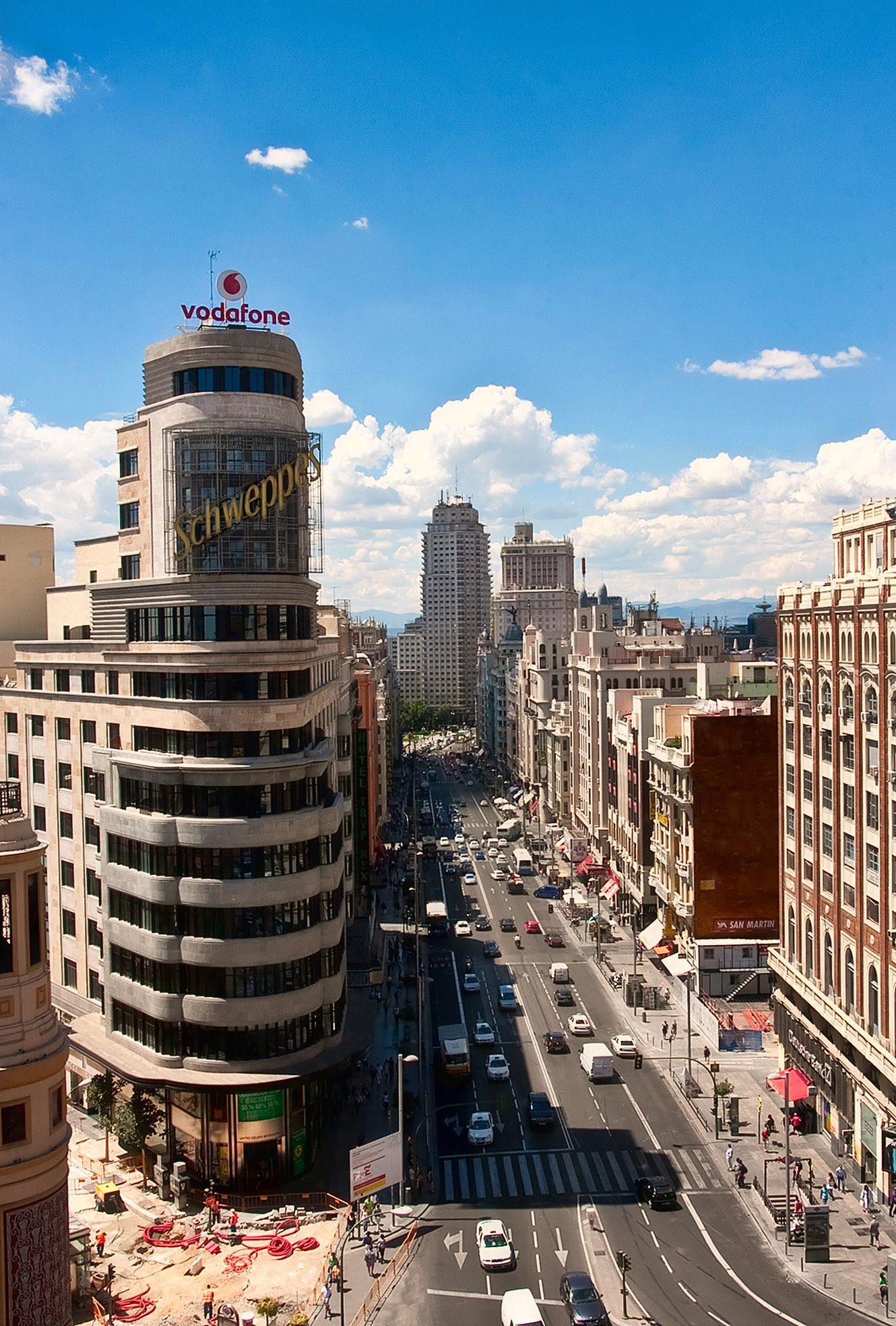 Gran Vía (a downtown avenue) in Madrid (Spain). Image taken from a building at Plaza del Callao (square). At the left, the Edificio Carrión (building).